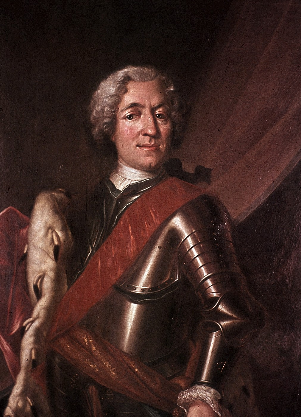 Painting of William Heinrich, Duke of Saxe-Eisenach (1691–1741), detail